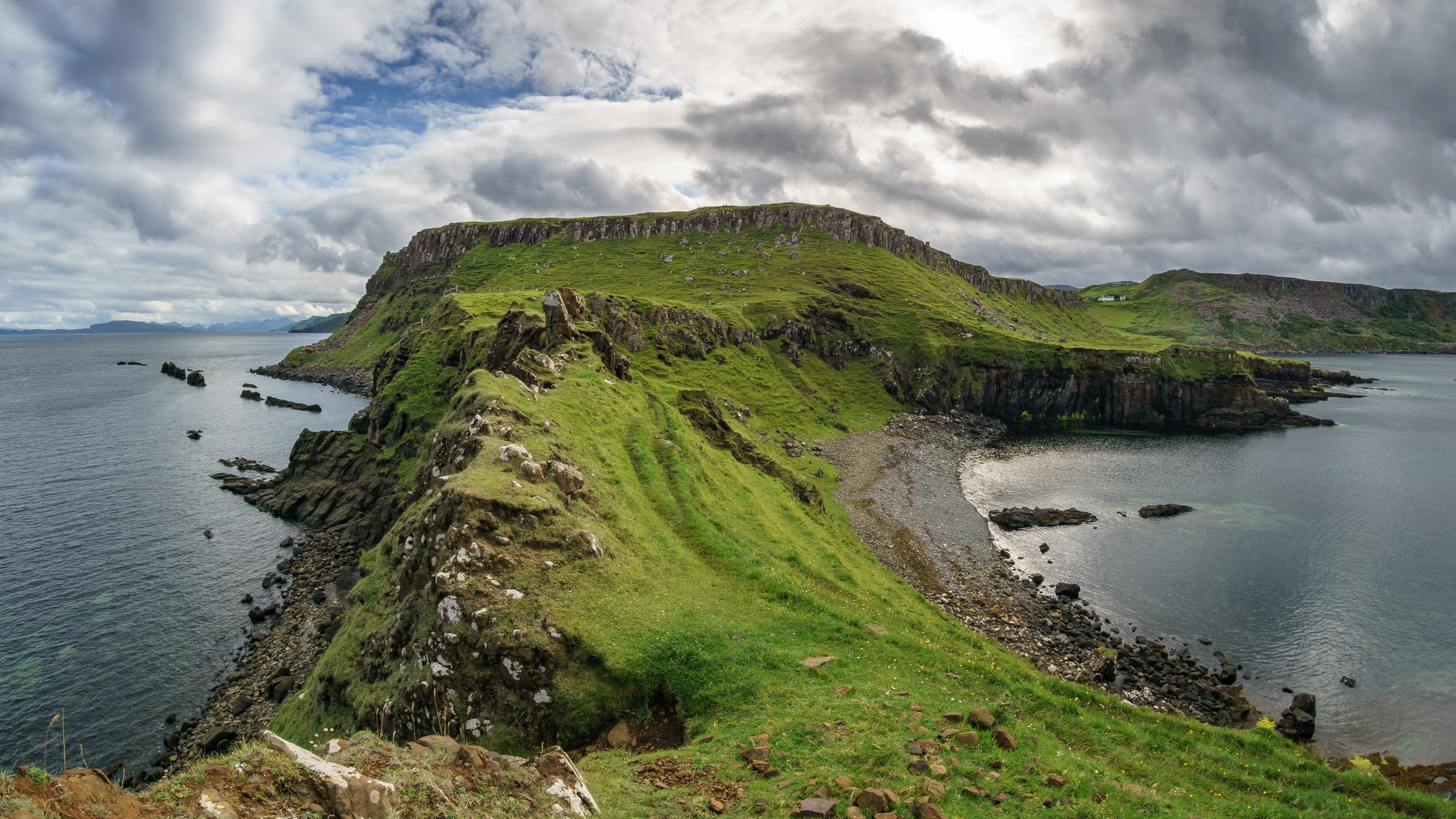 On Rubha nam Brathairean (Brothers Point) looking back to the rest of the Isle of Skye. This image was taken with a Samyang 8mm fisheye lens.